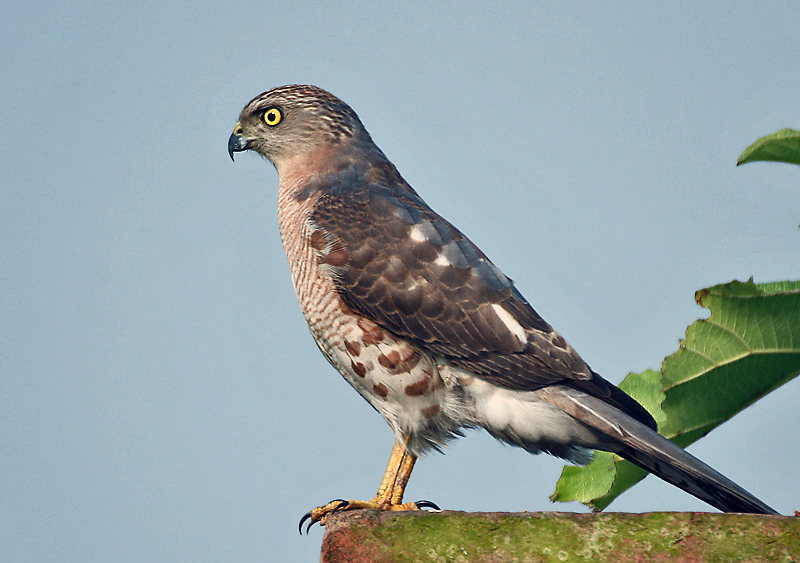 Shikra Accipiter badius near plant Chukka Croton laevigatus in Kolkata, West Bengal, India.